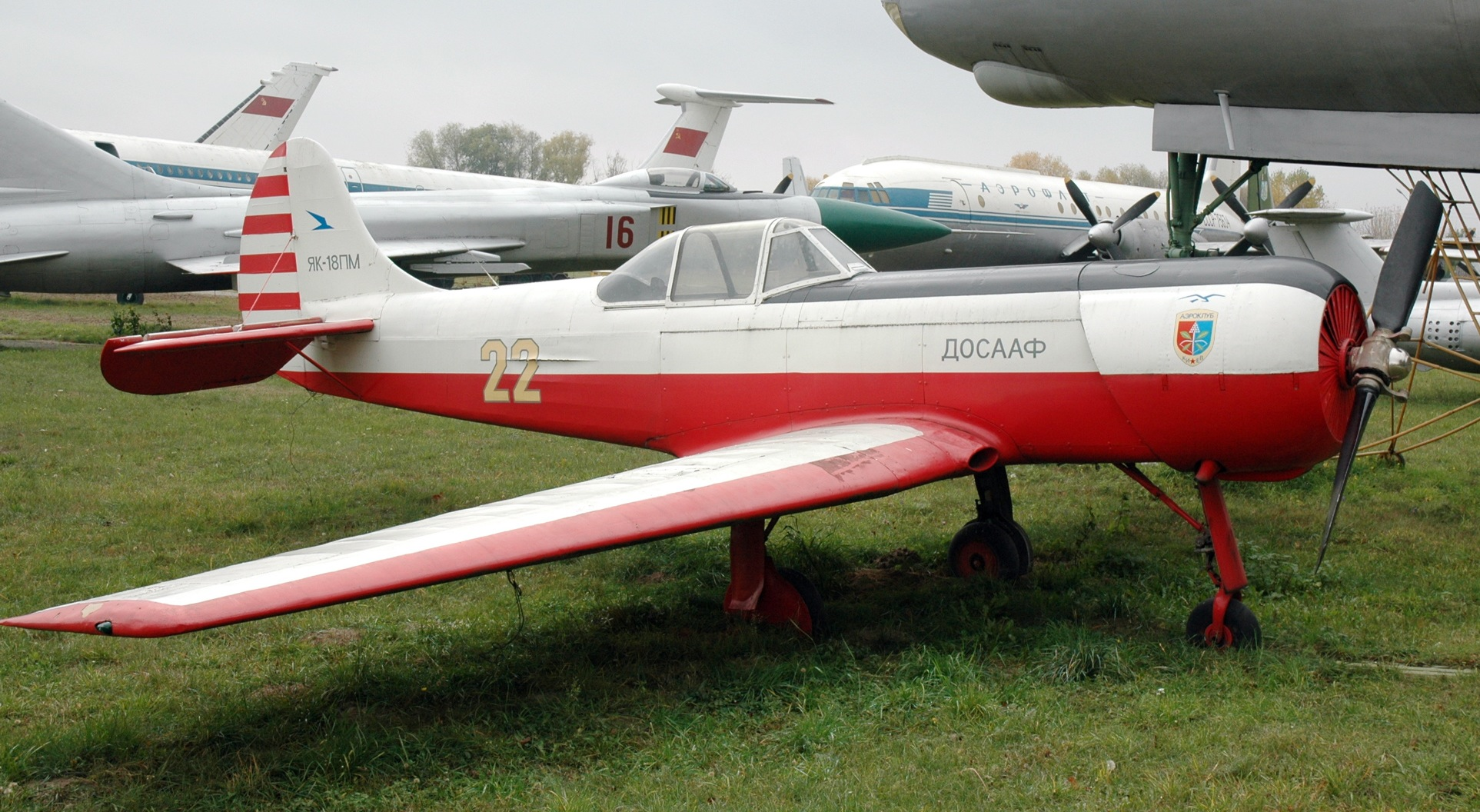 Yakovlev Yak-18PM acrobatic aircraft щwned by DOSAAF in Kiev